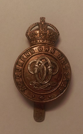 Photo of 7th Queen's Own Hussars Cap Badge from personal collection